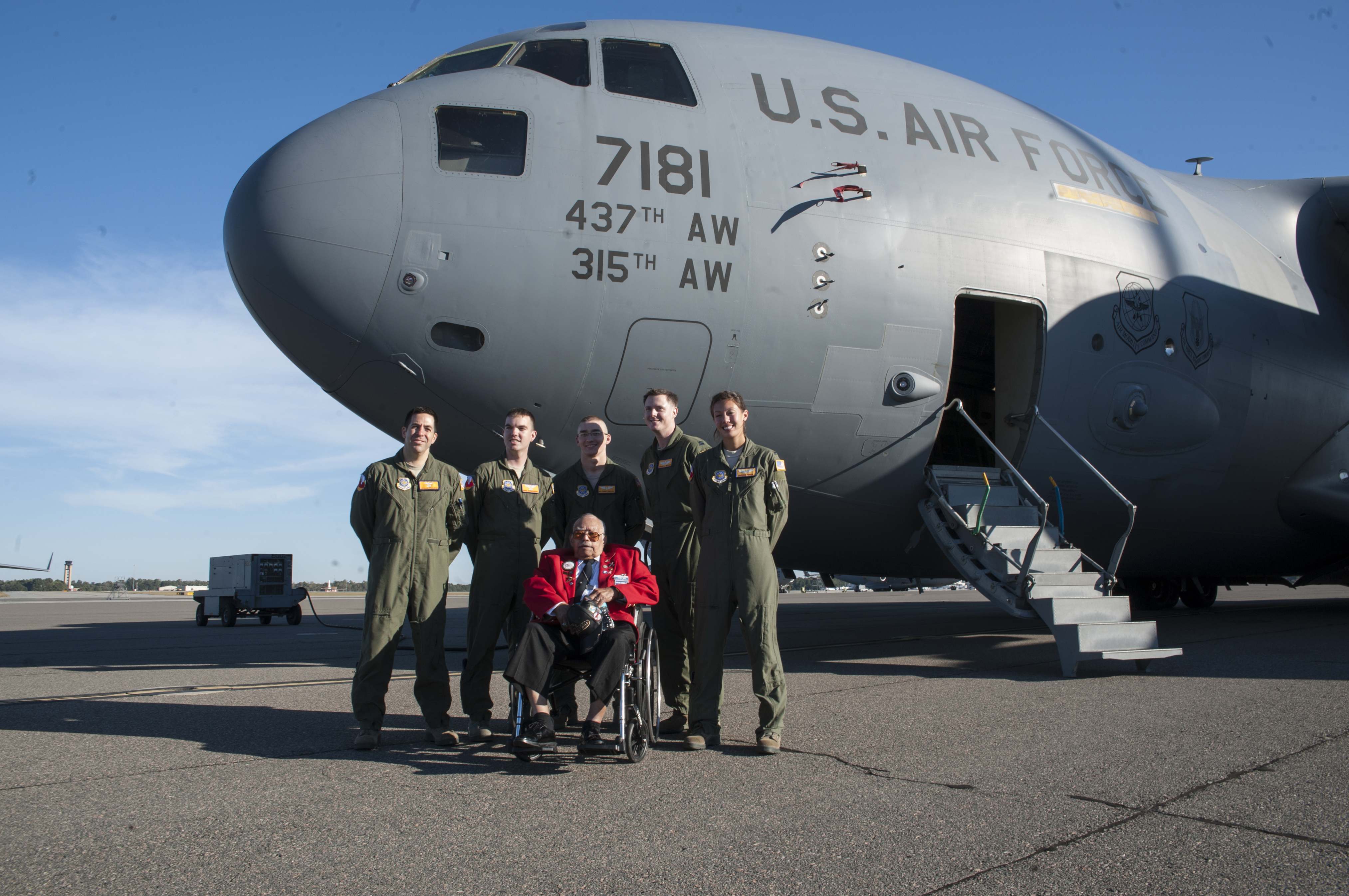 Tuskegee Airman Lt. Col. Hiram Mann poses with Airmen outside a C-17 Globemaster III Nov. 2, 2012 at Joint Base Charleston - Air Base, S.C. Entering the Army Air Corps as a pre-aviation student in 1942, Mann was assigned to the 100th Fighter Squadron of the 332nd Fighter Group, the Red Tail Angels, in Italy. He flew the P-40 "Warhawk" and the P-47 "Thunderbolt" fighter-type aircraft, and co-piloted in a B-25 "Billy Mitchell" bomber, a C-47 "Gooney-bird", and a C-45 "Expediter cargo planes. (U.S. Air Force photo/Airman 1st Class Ashlee Galloway)